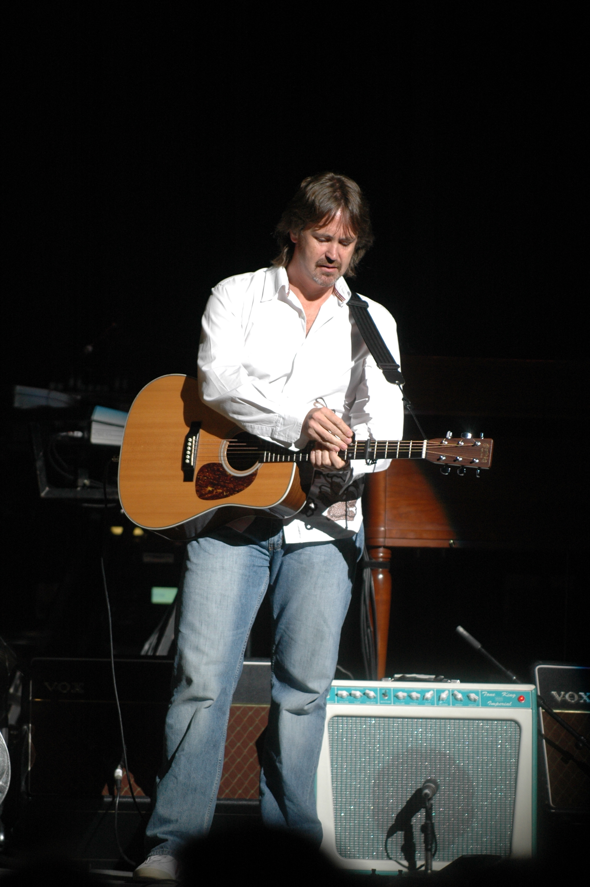 Guy Fletcher